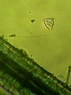 Vorticella is a genus of protozoa, with over 100 known species. They are stalked inverted bell-shaped ciliates, placed among the peritrichs. Each cell has a separate stalk anchored onto the substrate, which contains a contracile fibril called a myoneme.